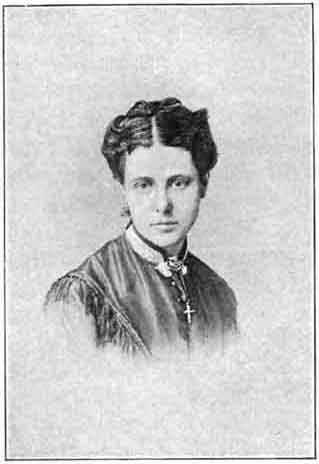 Annie Besant in 1869. Photograph by Dighton's Art Studio, Cheltenham